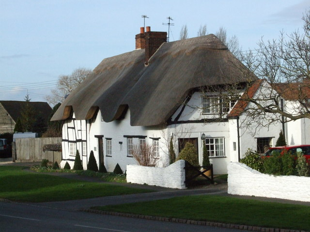 Thatched cottages opposite St Swithin's parish church, Lower Quinton, Warwickshire